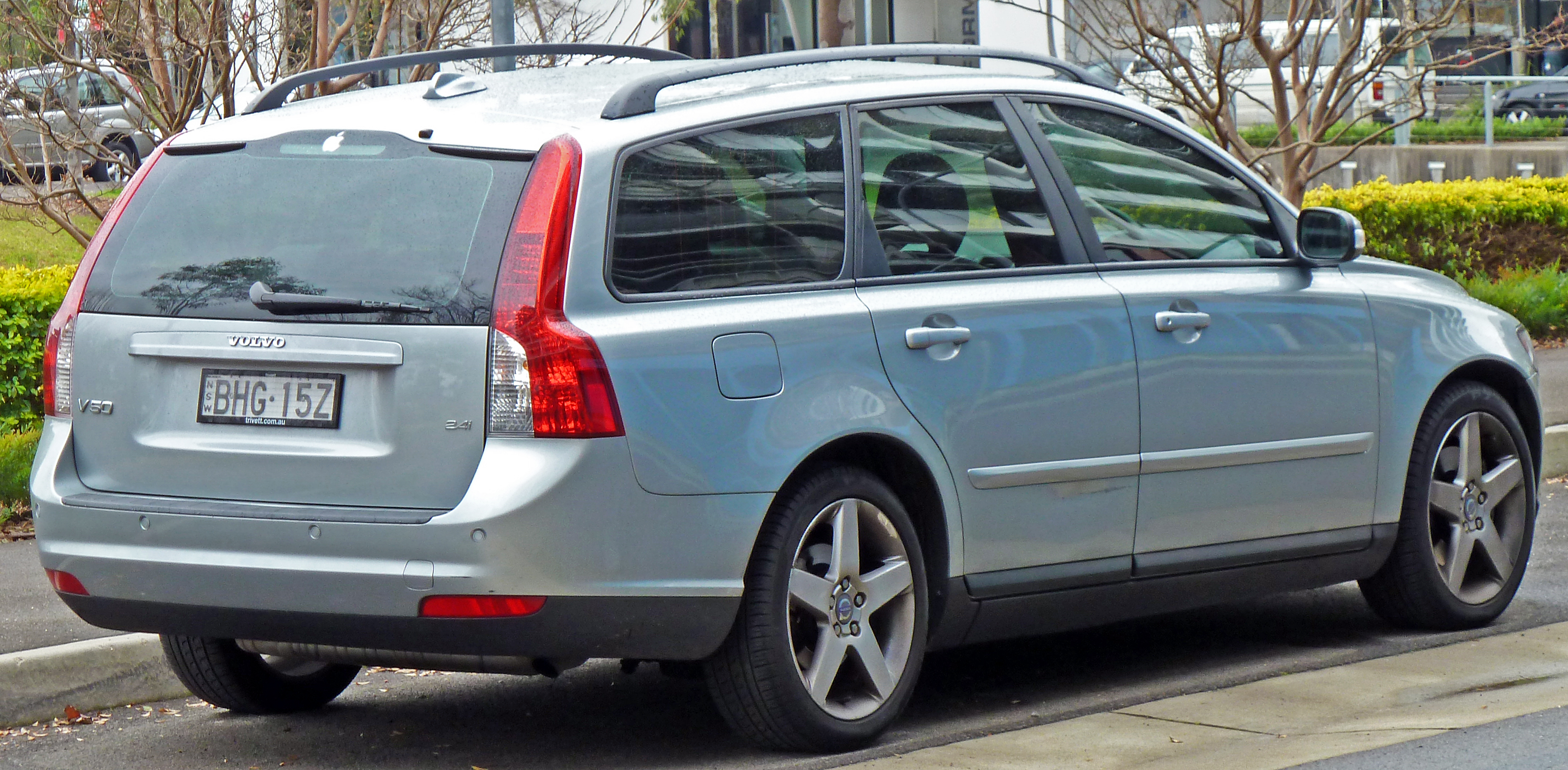 2008 Volvo V50 (MY08) LE station wagon. Photographed in Zetland, New South Wales, Australia.